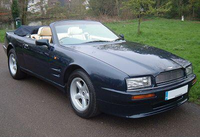 1993 Aston Martin Virage Volante. Photographed in a suburb of London, England.